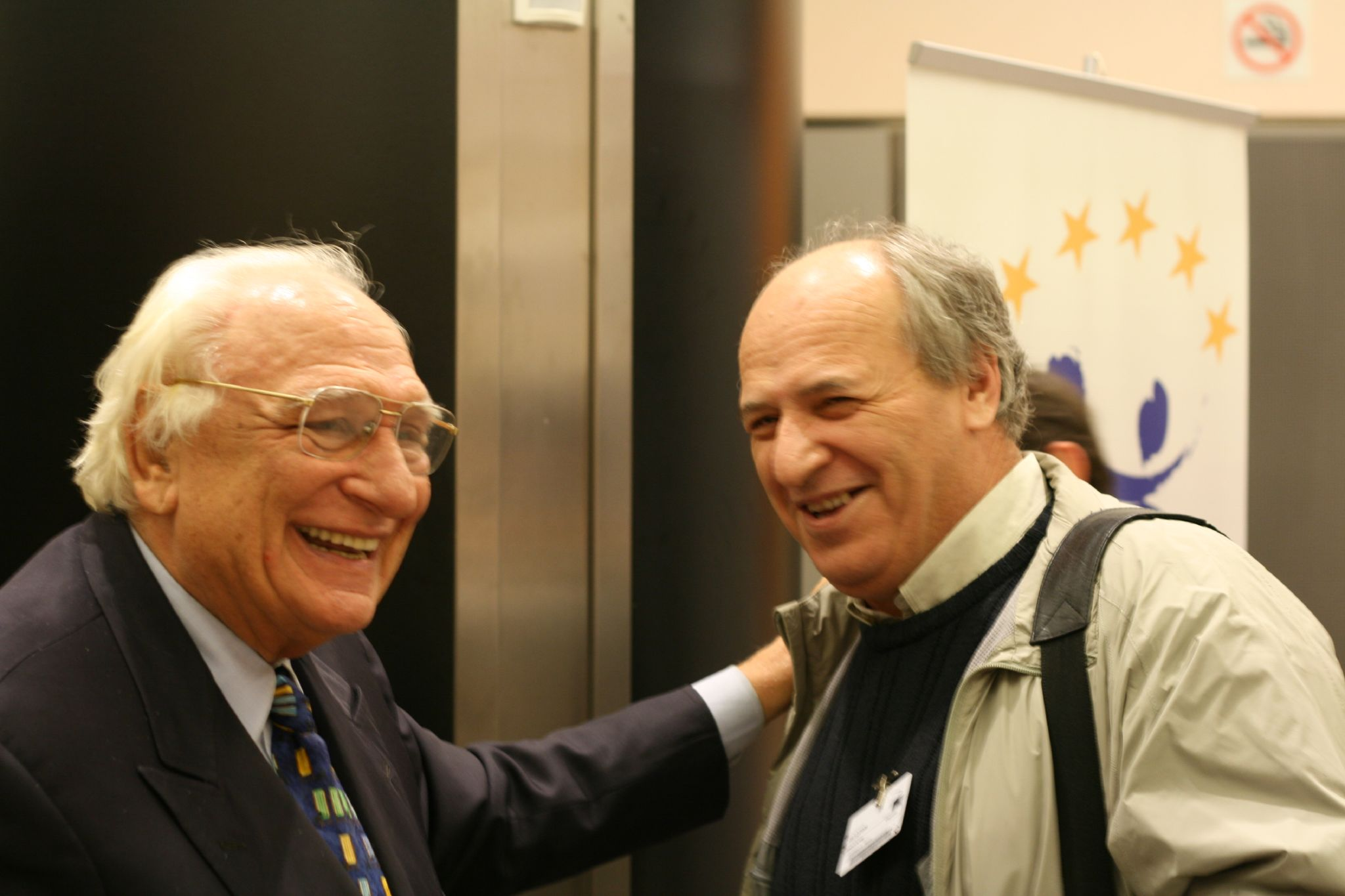 Marco Pannella, MEP, Oumar Khanbiev, former Chechen minister of health in the Maskhadov government